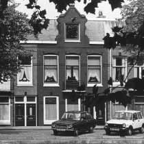 Randstad's first head office in 1960: the student room on Sloterkade in Amsterdam